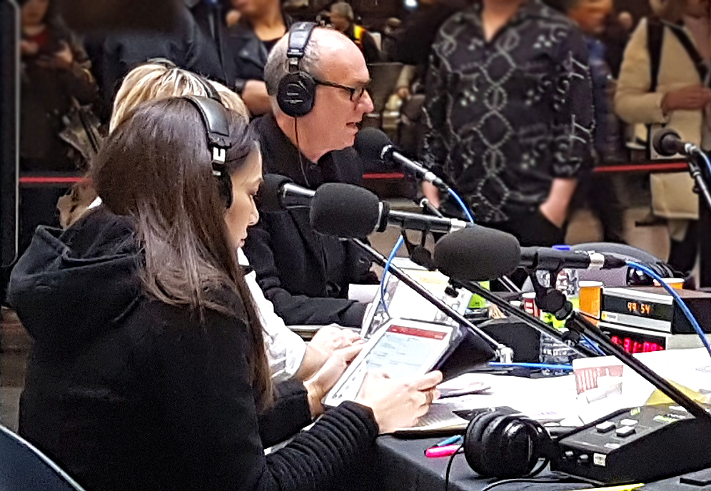 Alain Gravel is hosting live from Montreal's Central Station the morning radio show Gravel le matin on Radio-Canada's Première on April 4th, 2017, in Montreal.